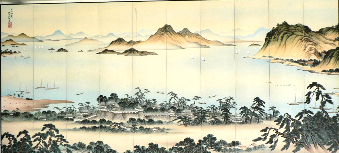 A view of Mihara Castle from afar.